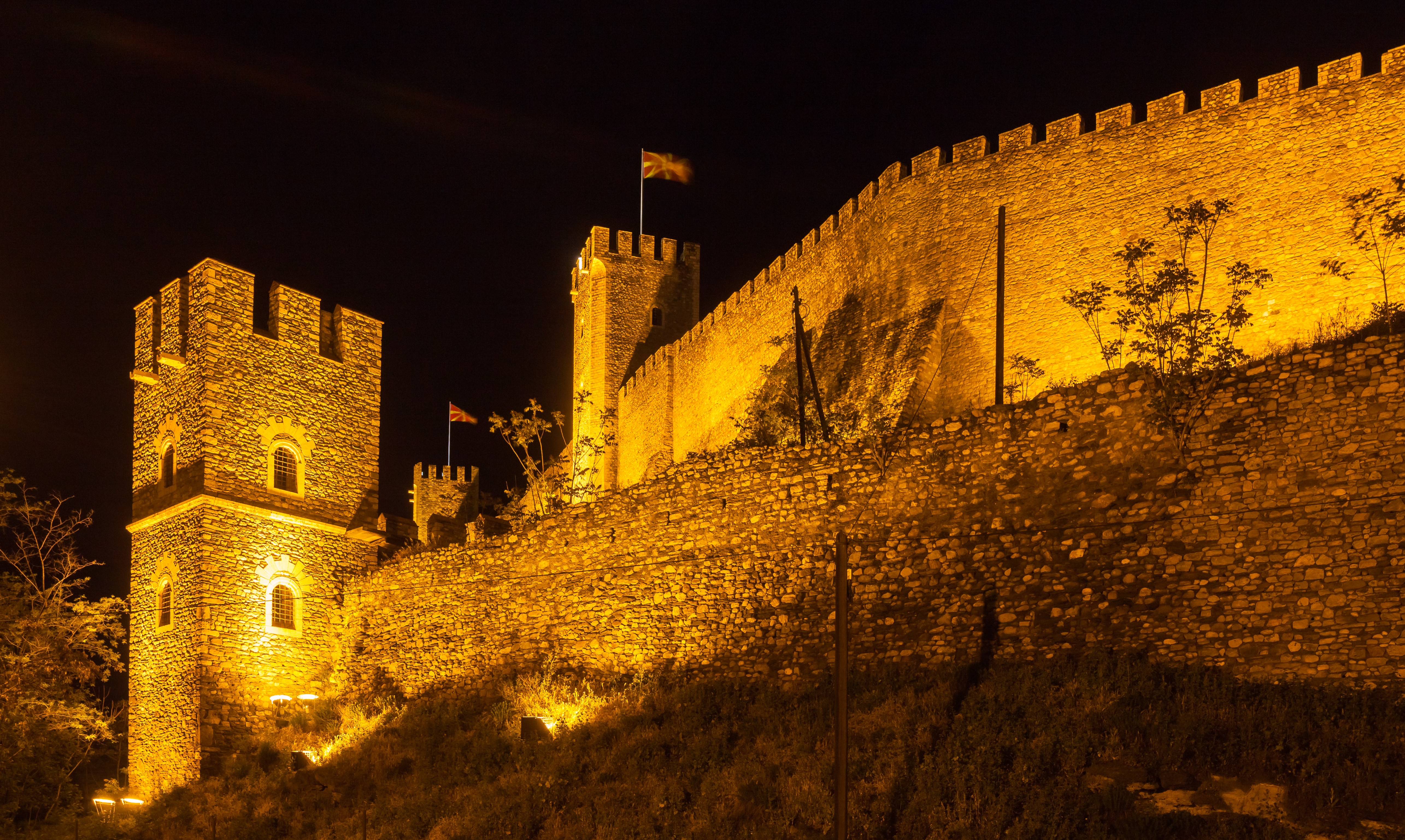 Skopje Fortress, Macedonia